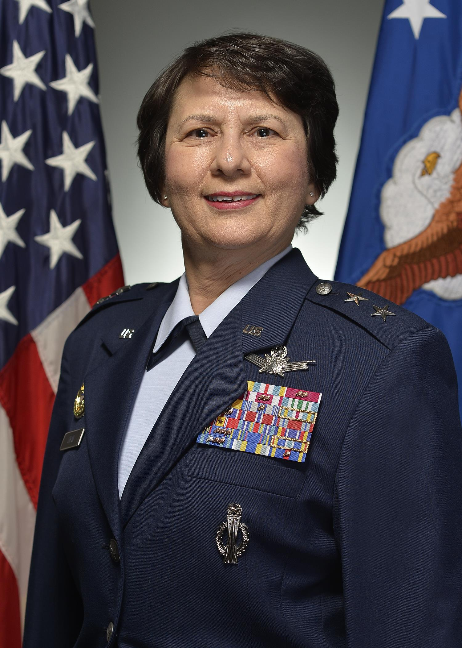 Newest official photo of MG Finan